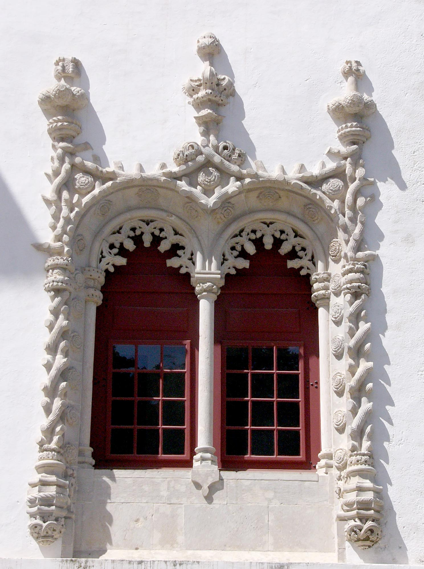 Manueline window of the Sintra National Palace, Portugal